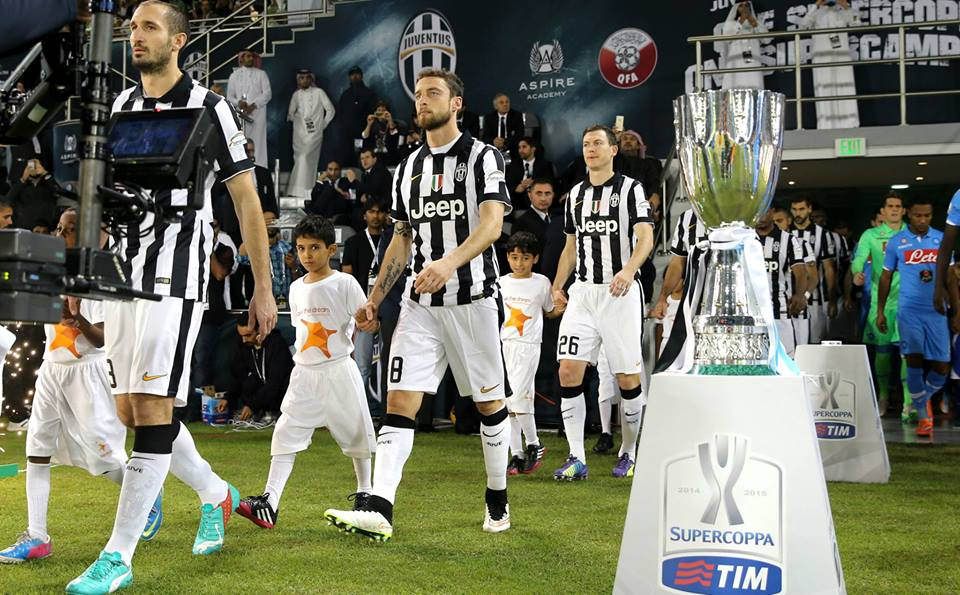 Save the Dream was proud to partner with Aspire Academy and the Qatar Football Association to spread the message of pure sport at the Italian Supercup finals between Juventus and SSC Napoli, held in Doha on December 22nd, 2014. Bianconeri's Giorgio Chiellini, Claudio Marchisio and Stephan Lichtsteiner.